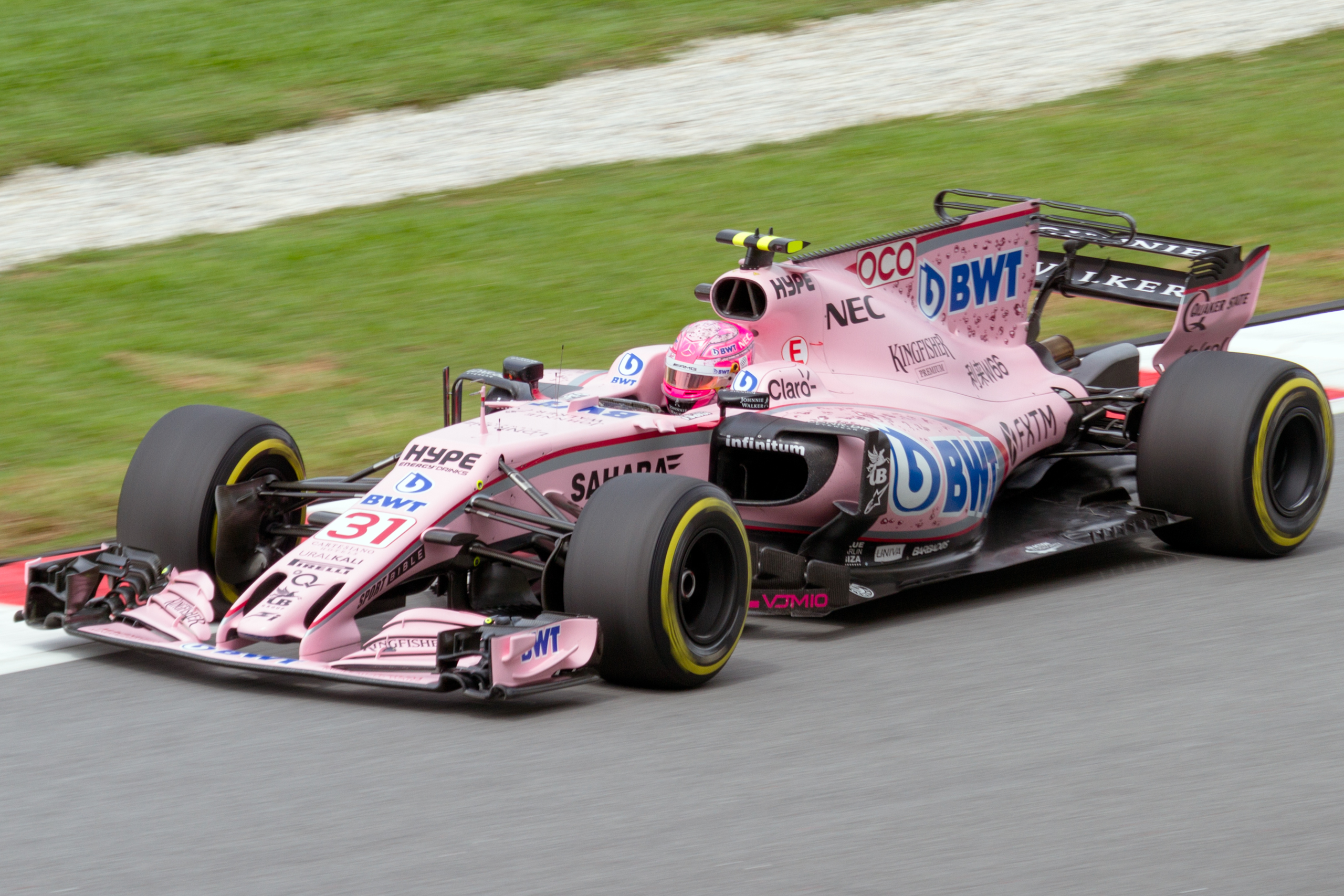 Formula One 2017 Rd.15 Malaysian GP: Esteban Ocon (Force India)